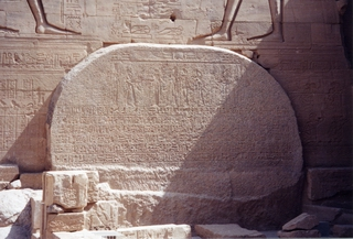 Philae